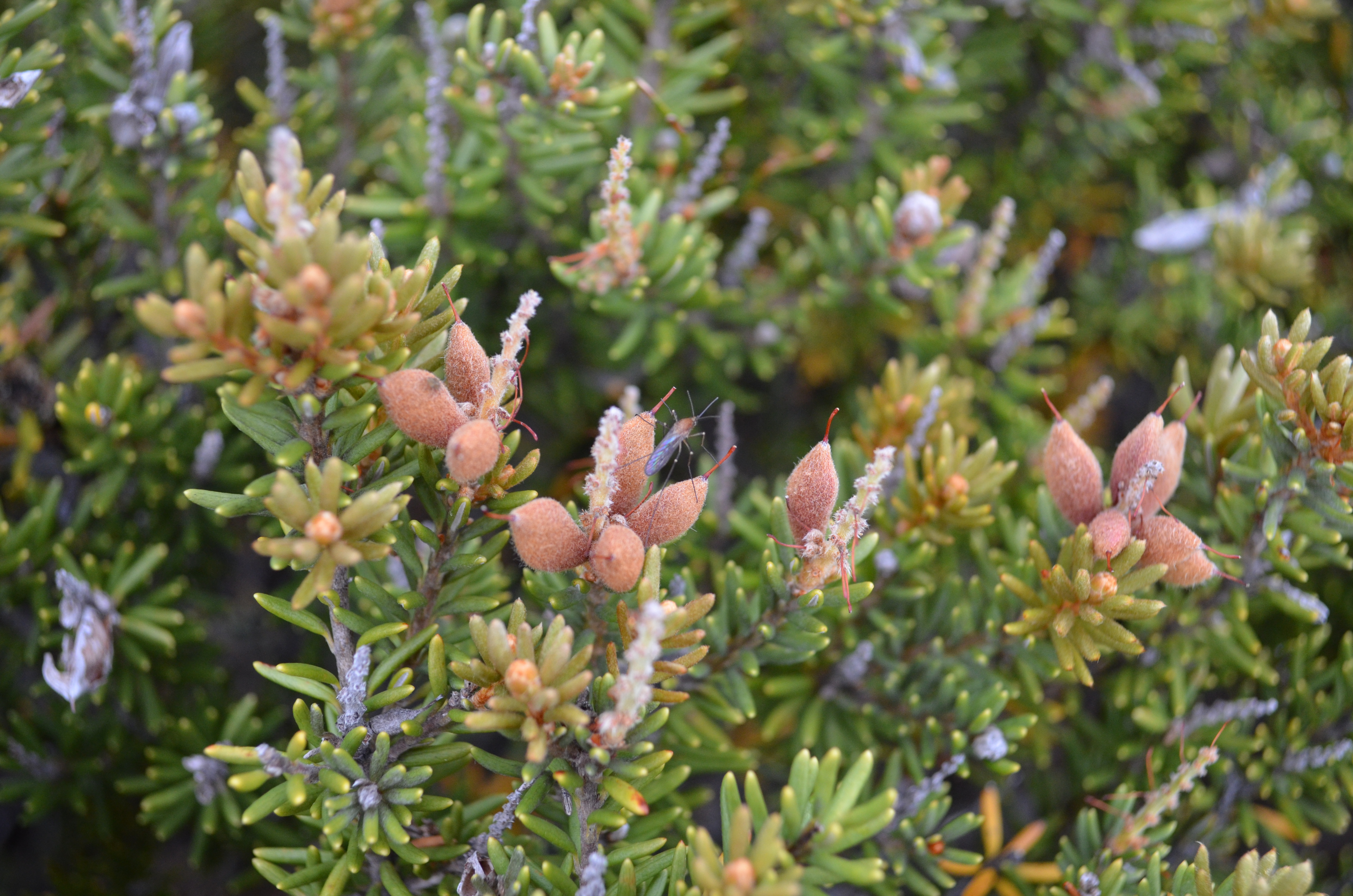 O.revoluta